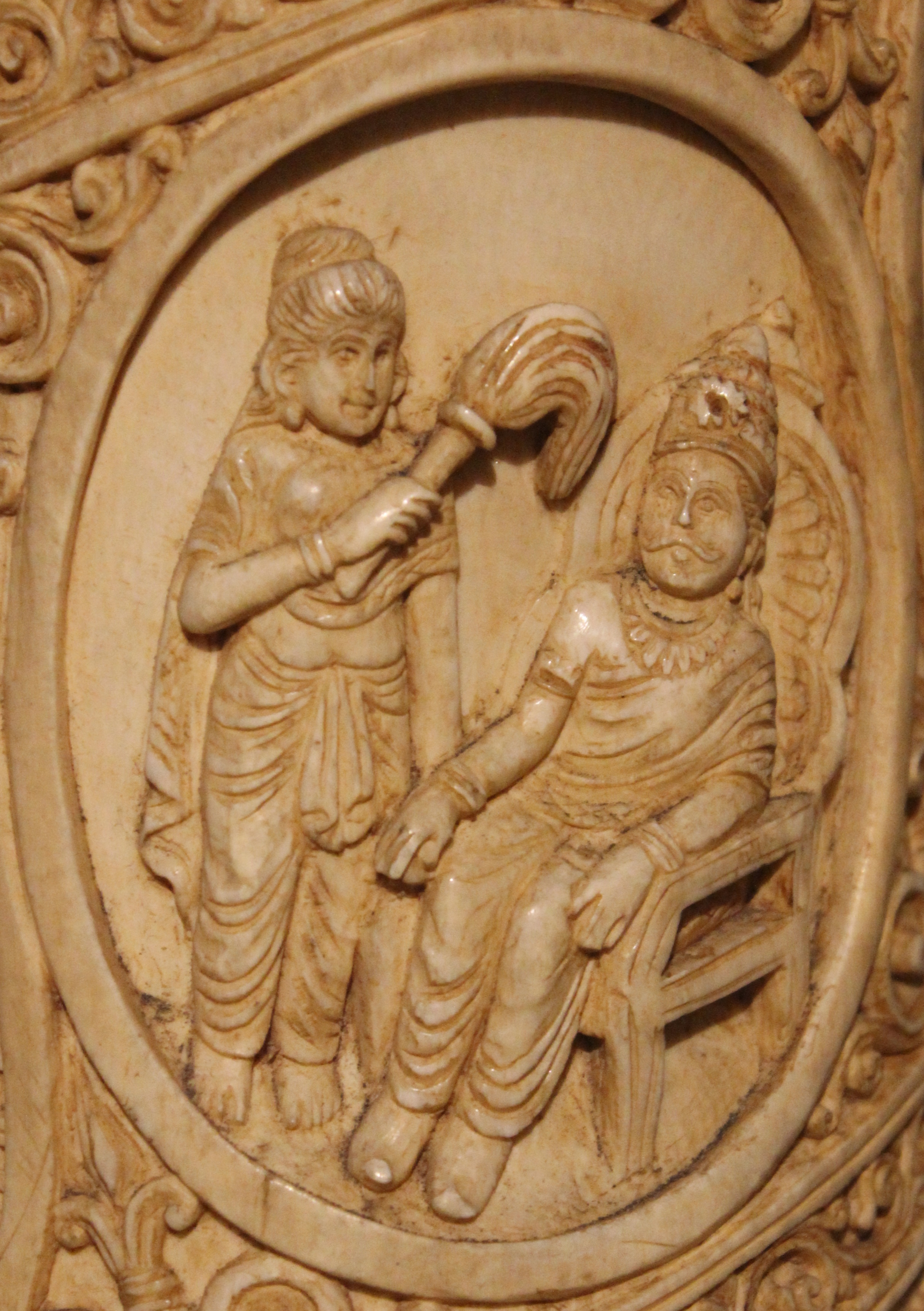 Roundel 2: Suddhodna, King of Kapilavastu seated on a throne